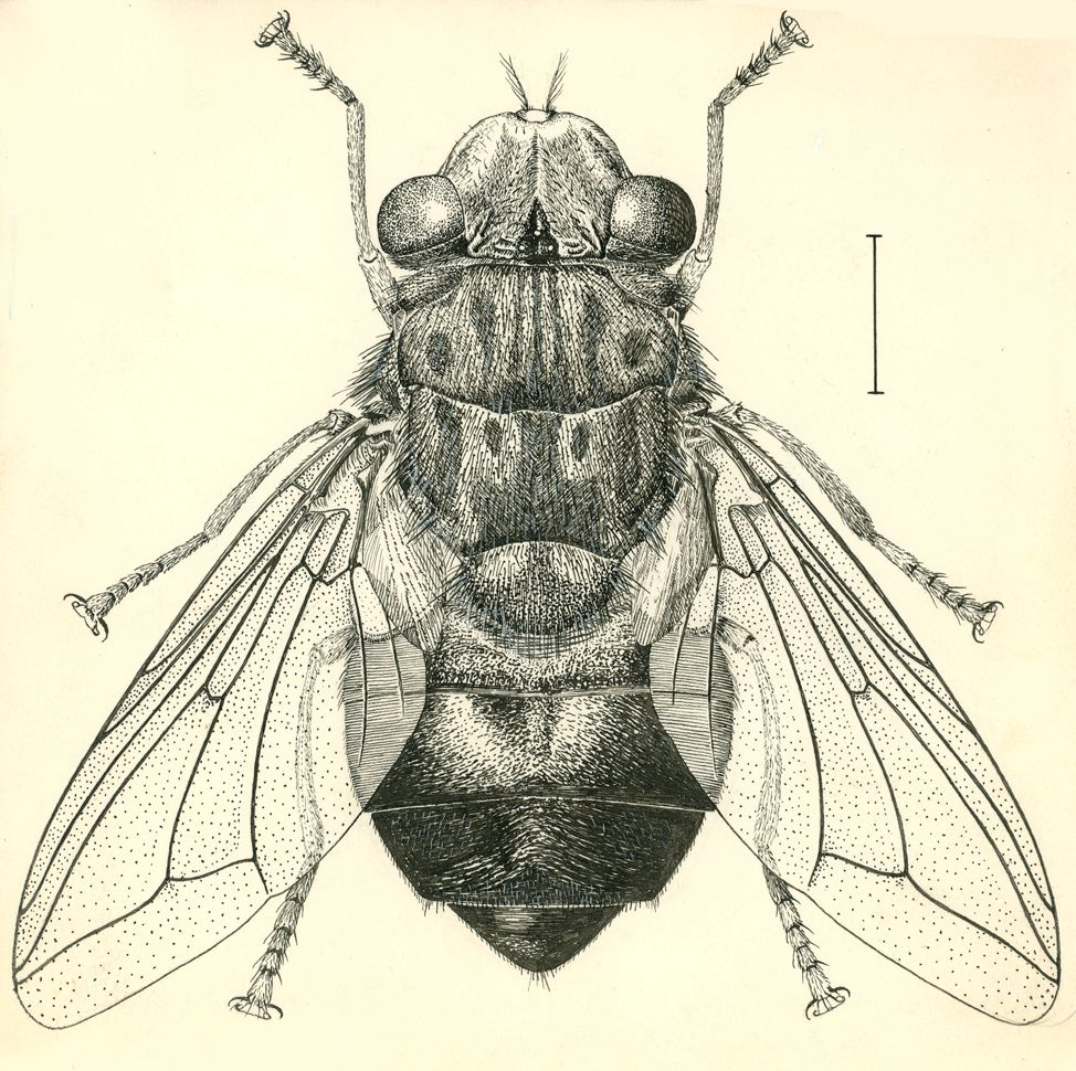 Dermatobia hominis adult The original was done in pen and ink on Bristol board.